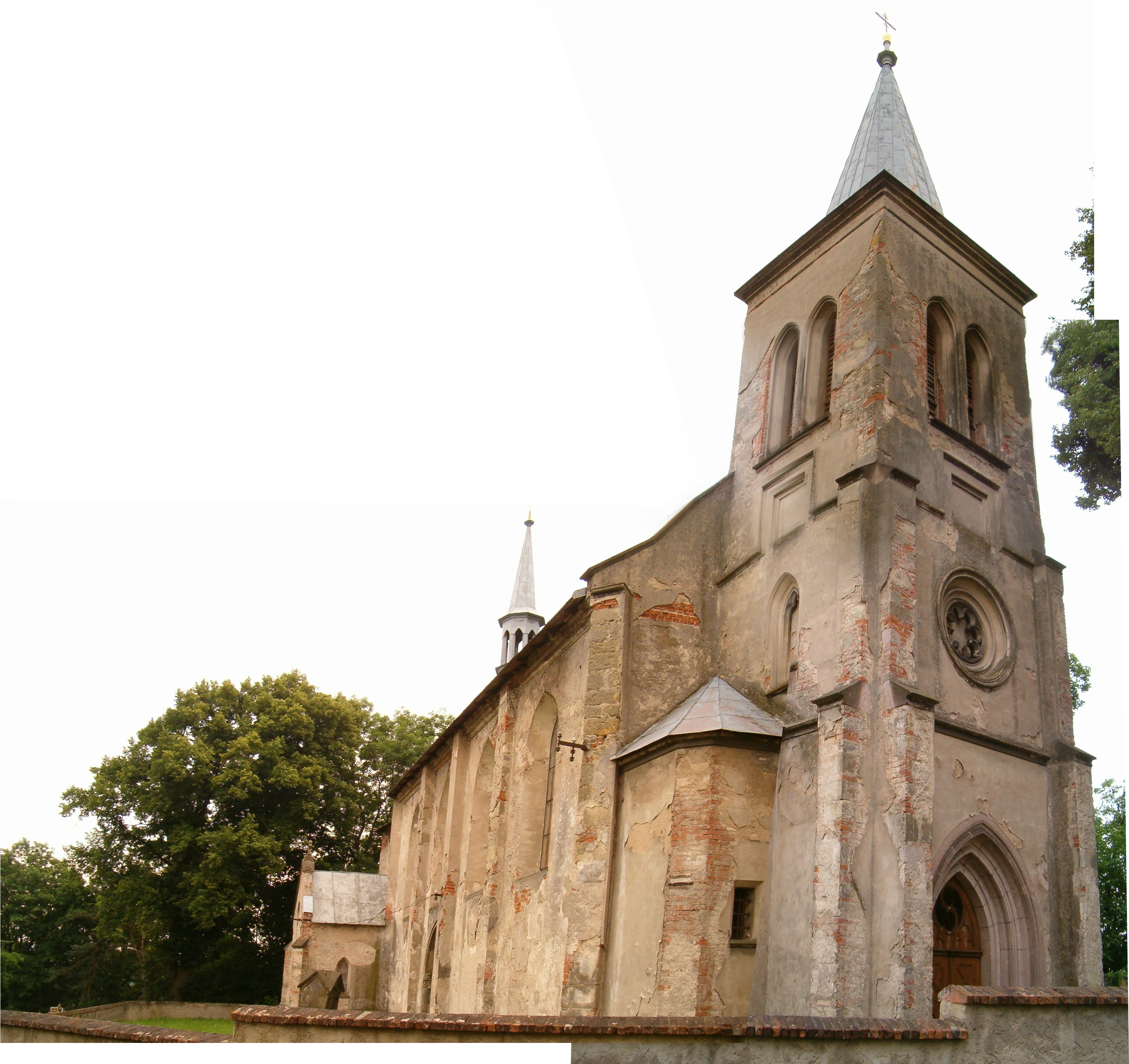 Church of the Nativity of the Virgin Mary in village of Klášter Hradiště nad Jizerou, Mladá Boleslav District, Czech Republic